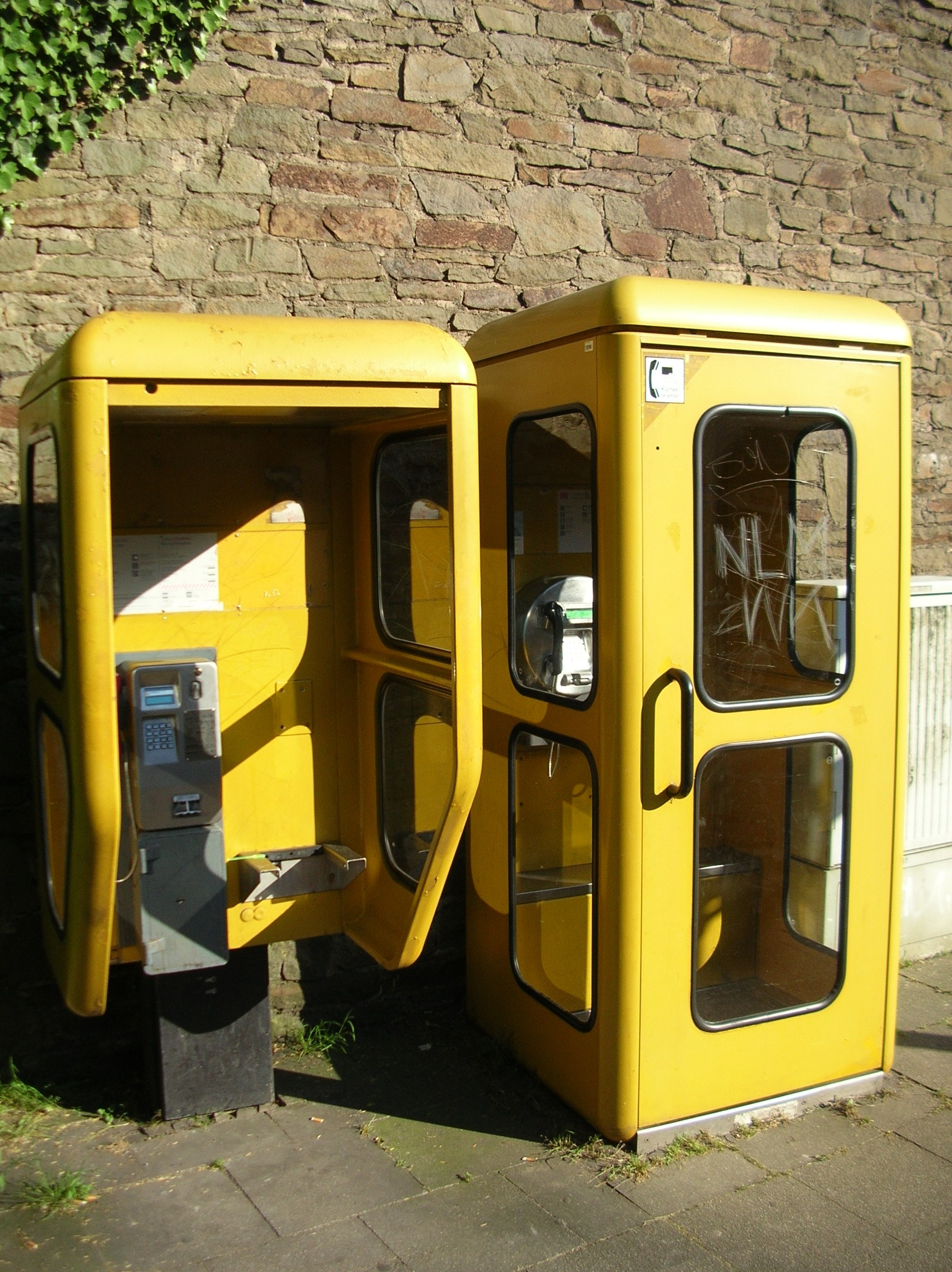 German telephone boxes of the former Federal Postal Service. Former location in Essen-Werden